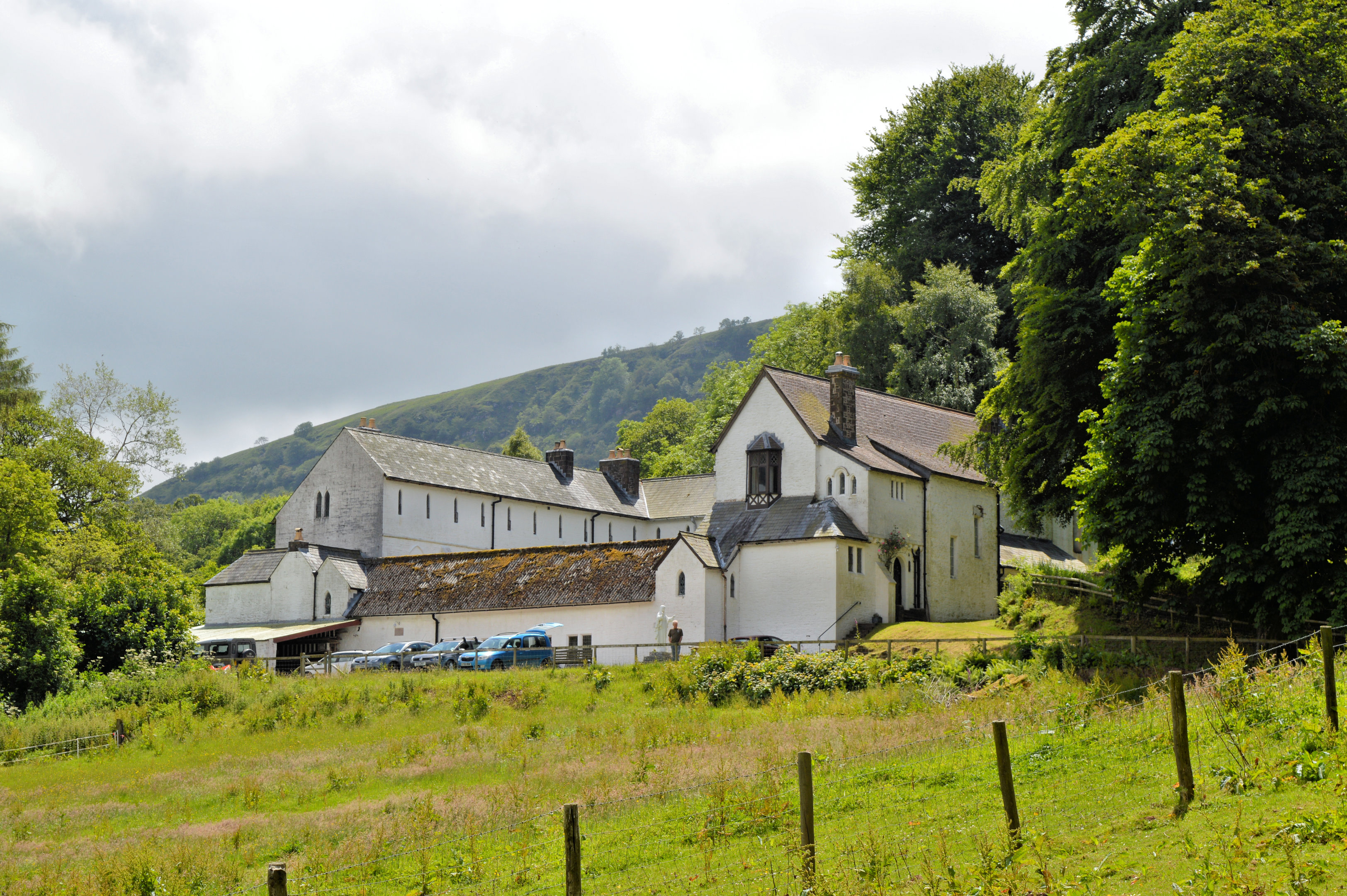 The monastery built by Joseph Leycester Lyne (Father Ignatius) in Capel y Ffin. Later the home of Eric Gill, and now holiday accommodation.